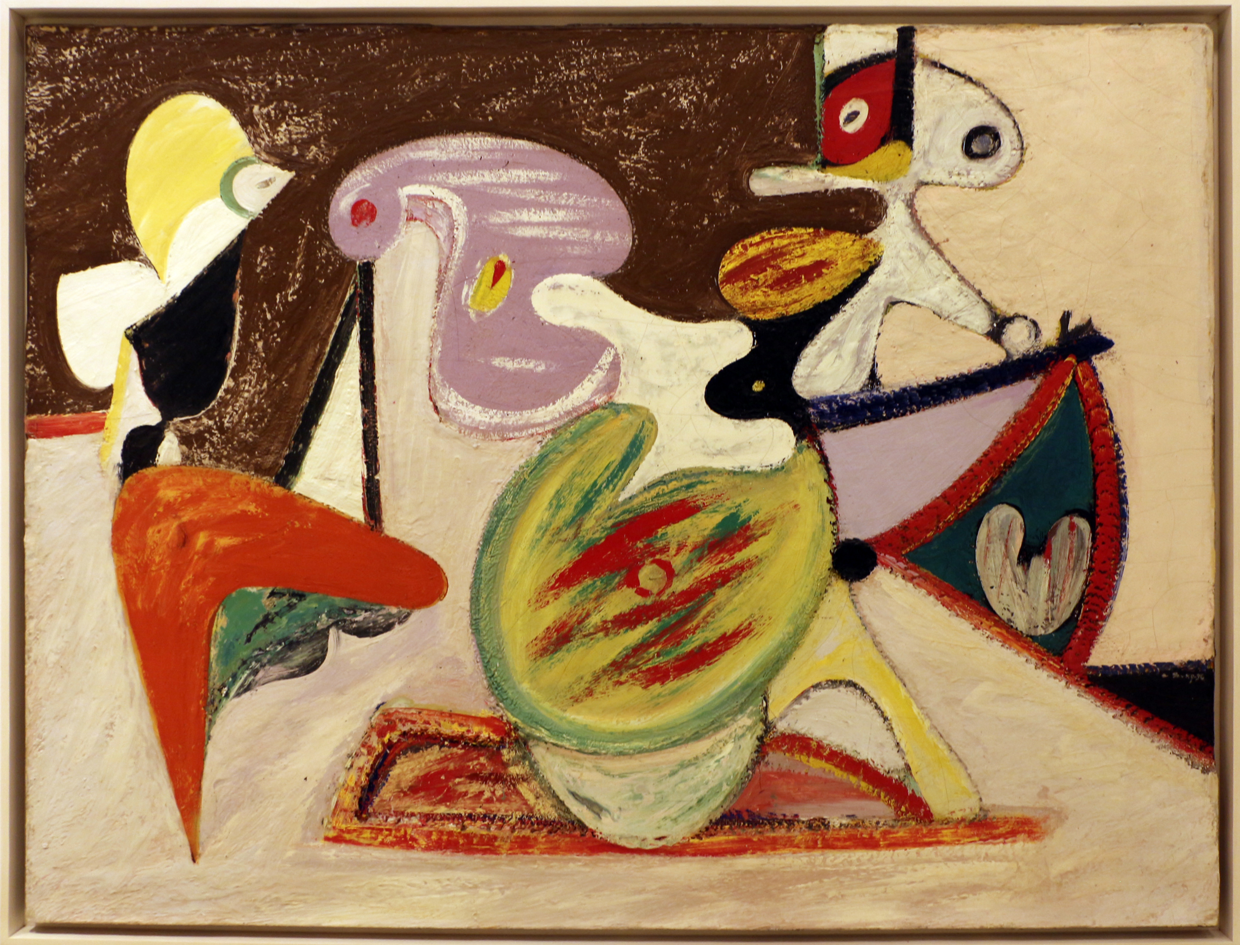 Paintings in the Albright-Knox Gallery